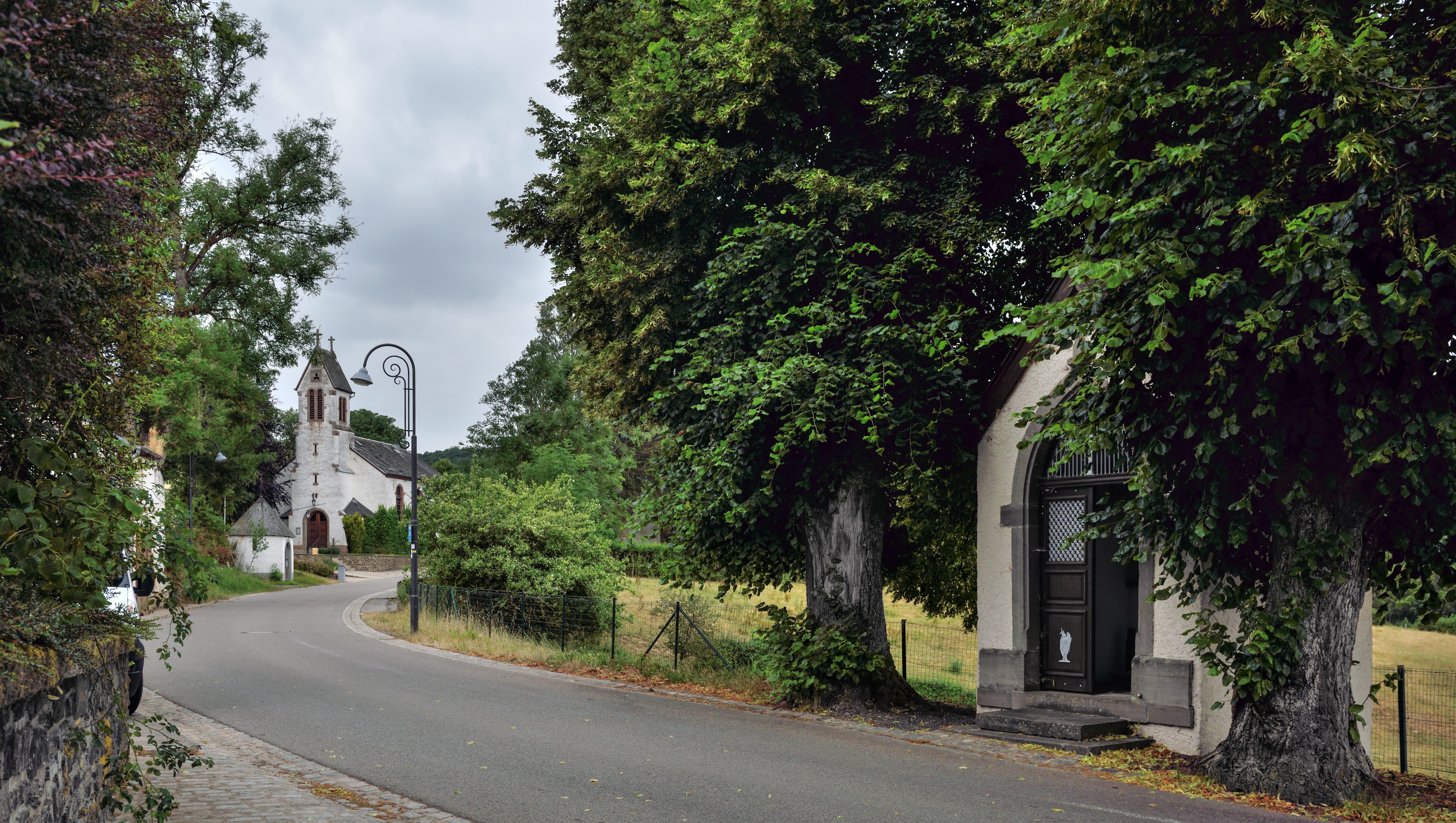 Tadler, Haaptstrooss (Main Street), commune of Esch-sur-Sûre, Luxembourg: chapel of the Fourteen Wholy Helpers (right foreground) and the church (left background) .